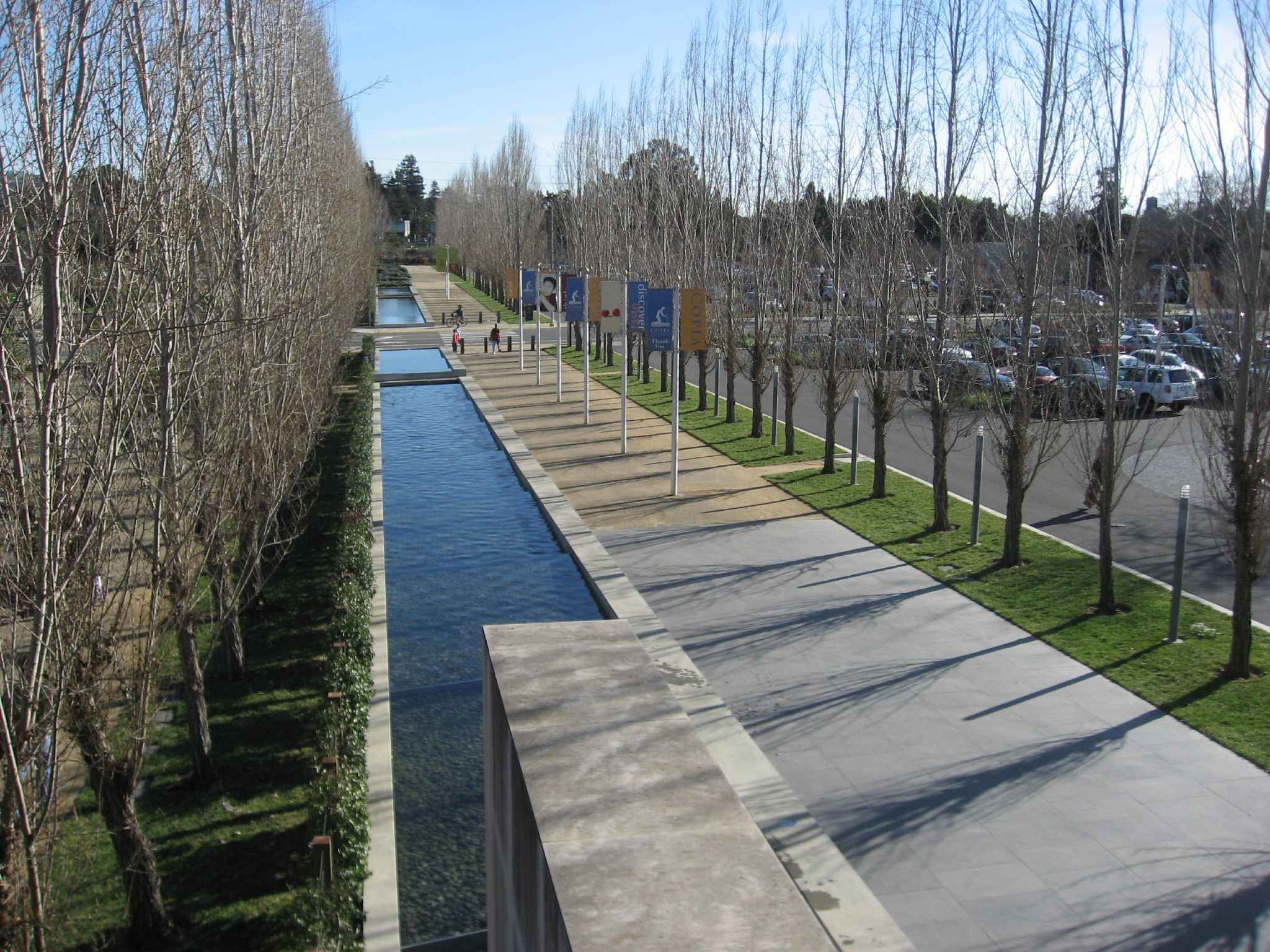 The path leading to Copia.